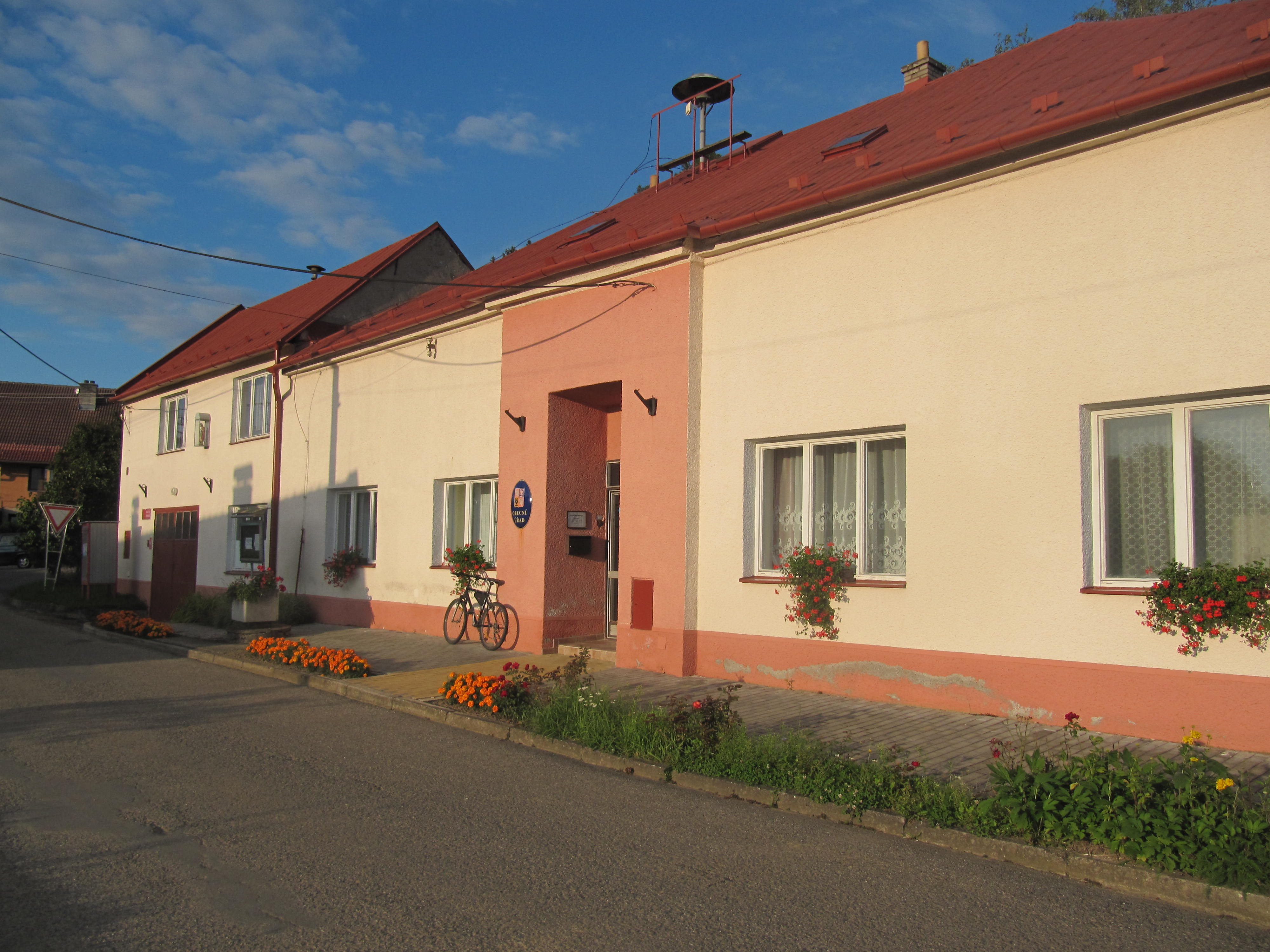 Karlovice in Zlín District, Czech Republic.Municipal office and firehouse.